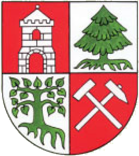 Coat of Arms of VG Unterharz